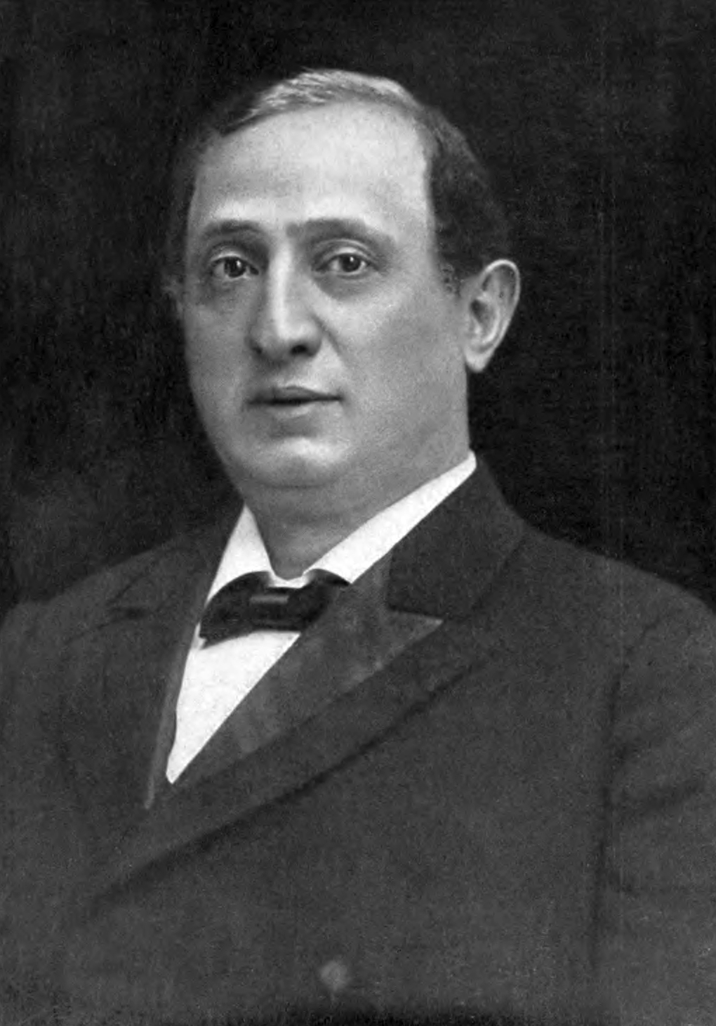 Photograph of actor Jacob Adler